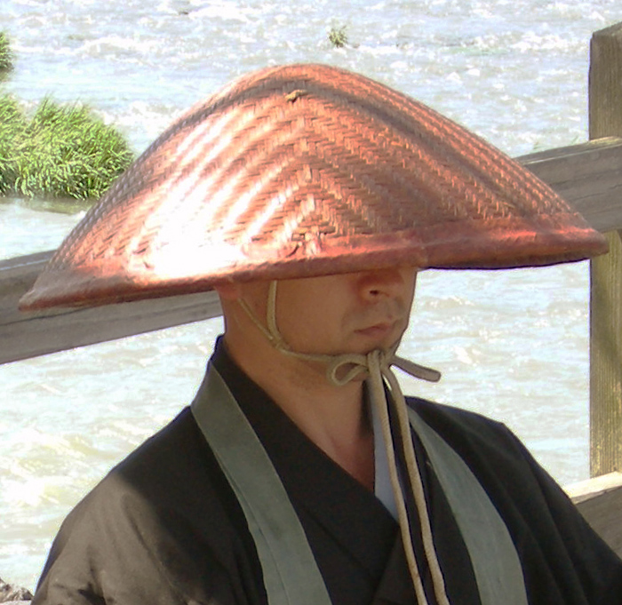 Photograph of Japanese Buddhist monk, cropped to show hat better at thumbnail size